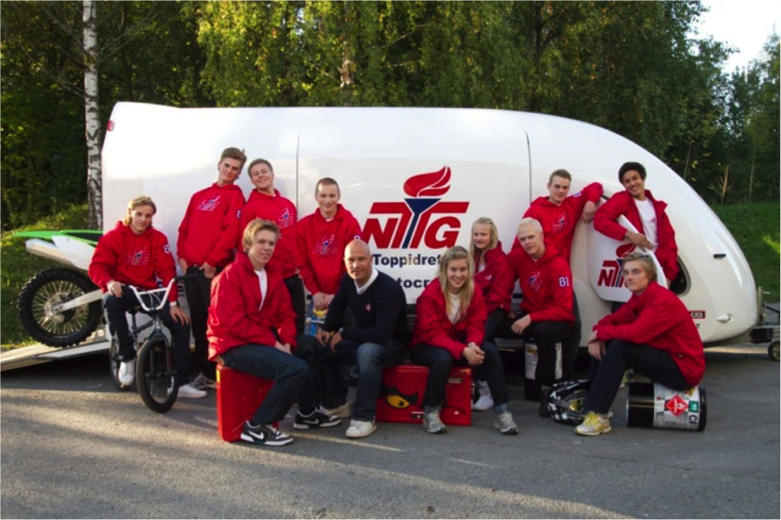 Genette, 2010 NTG